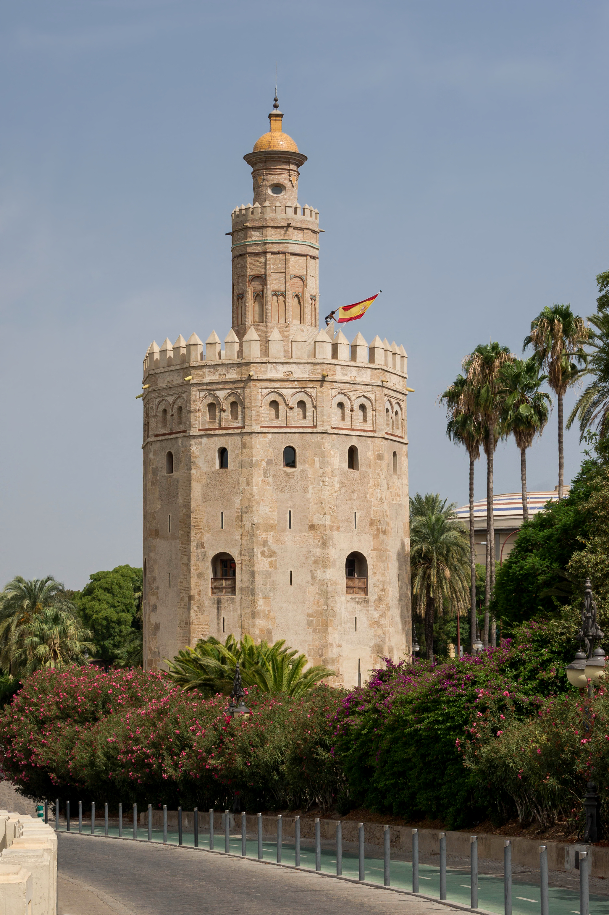 The "Tower of Gold", (Torre del Oro), near the Guadalquivir river, Seville, Spain.